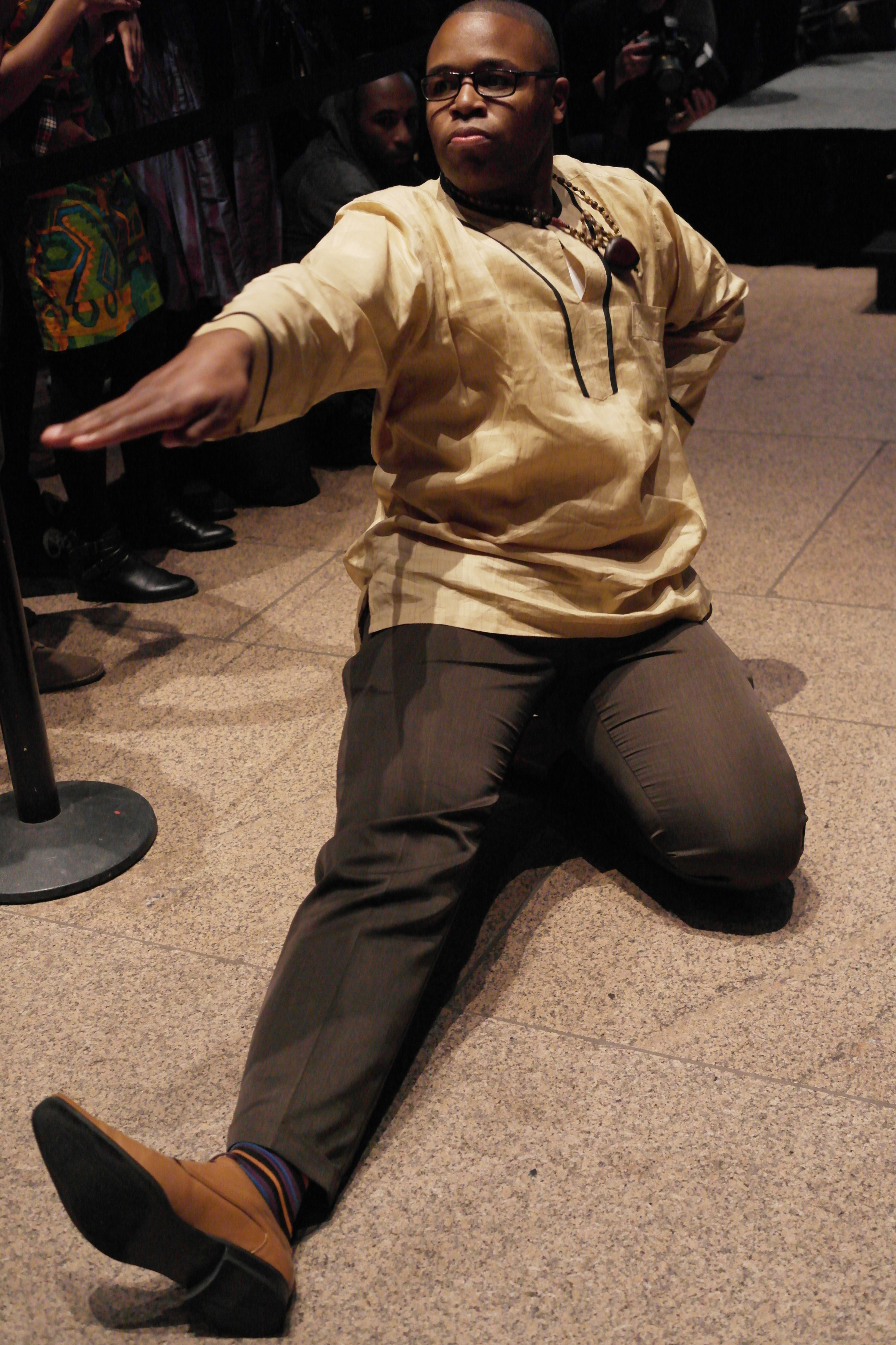 by LGBT folks at National Museum of African Arts